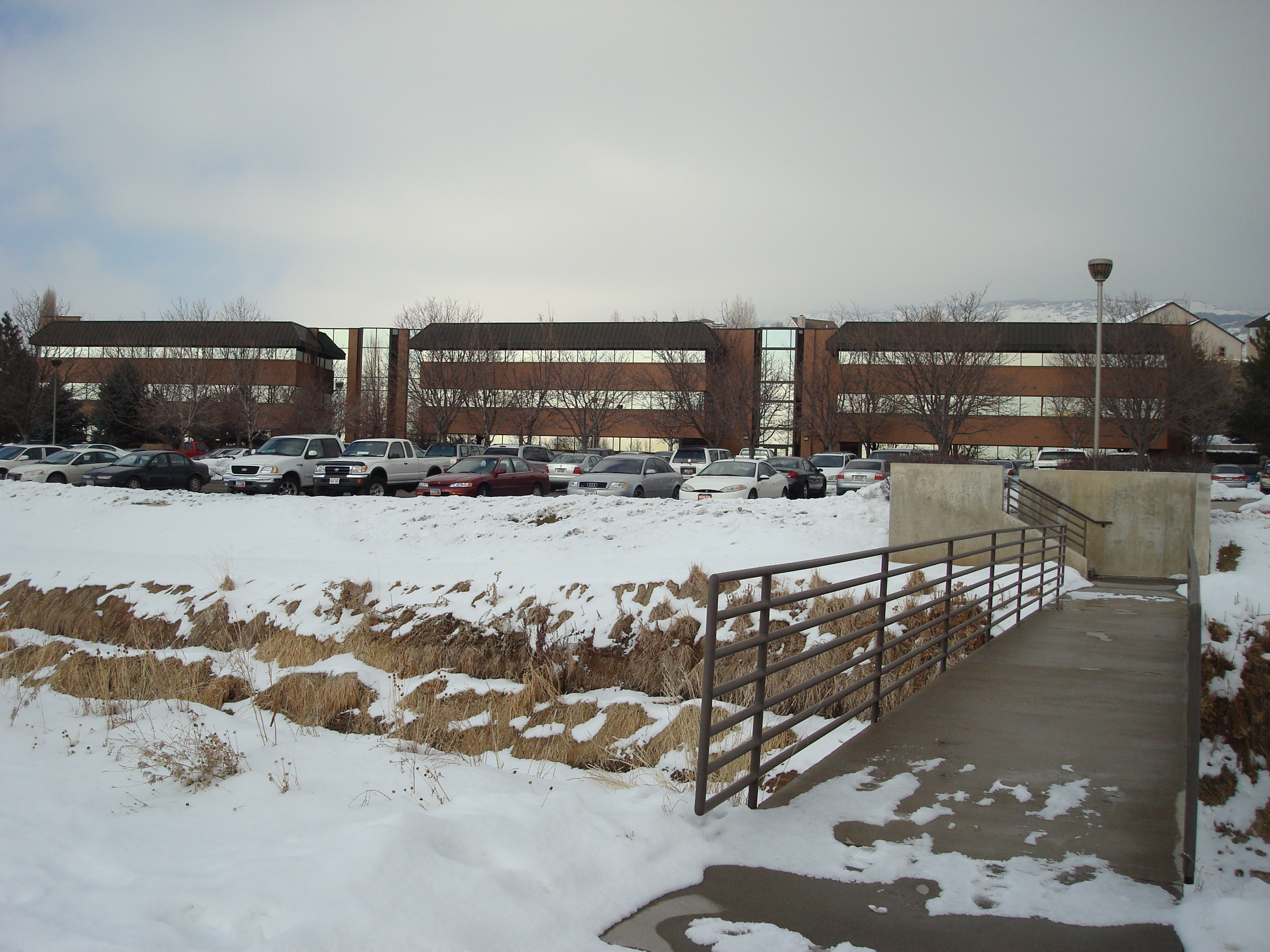 The former headquarters building of WordPerfect in Orem, Utah, as seen in 2008.